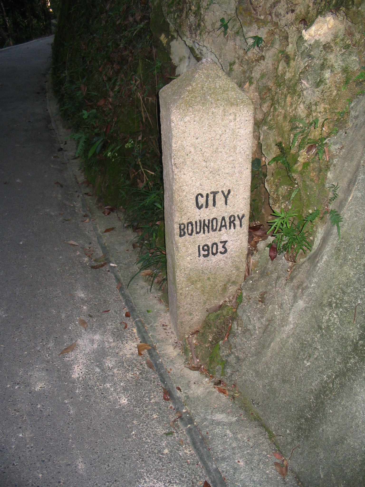 Photo of City Boundary 1903 at Hatton Road